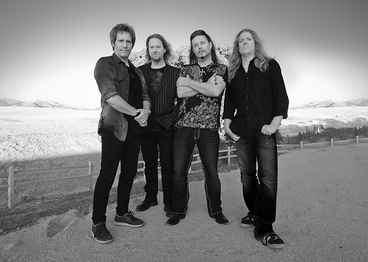 Promotional photo of the progressive rock band ASIA Featuring John Payne. From left to right, Jay Schellen, Erik Norlander, John Payne, Bruce Bouillet.